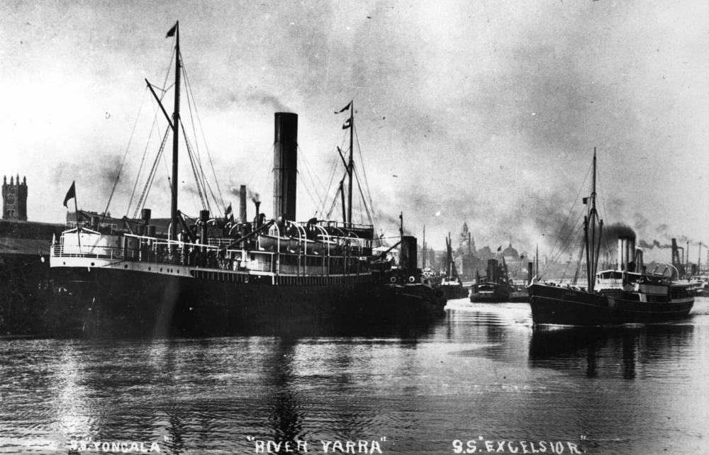 Shipping on the River Yarra, Melbourne Left hand side, S.S. Yongala and S.S. Excelsior.